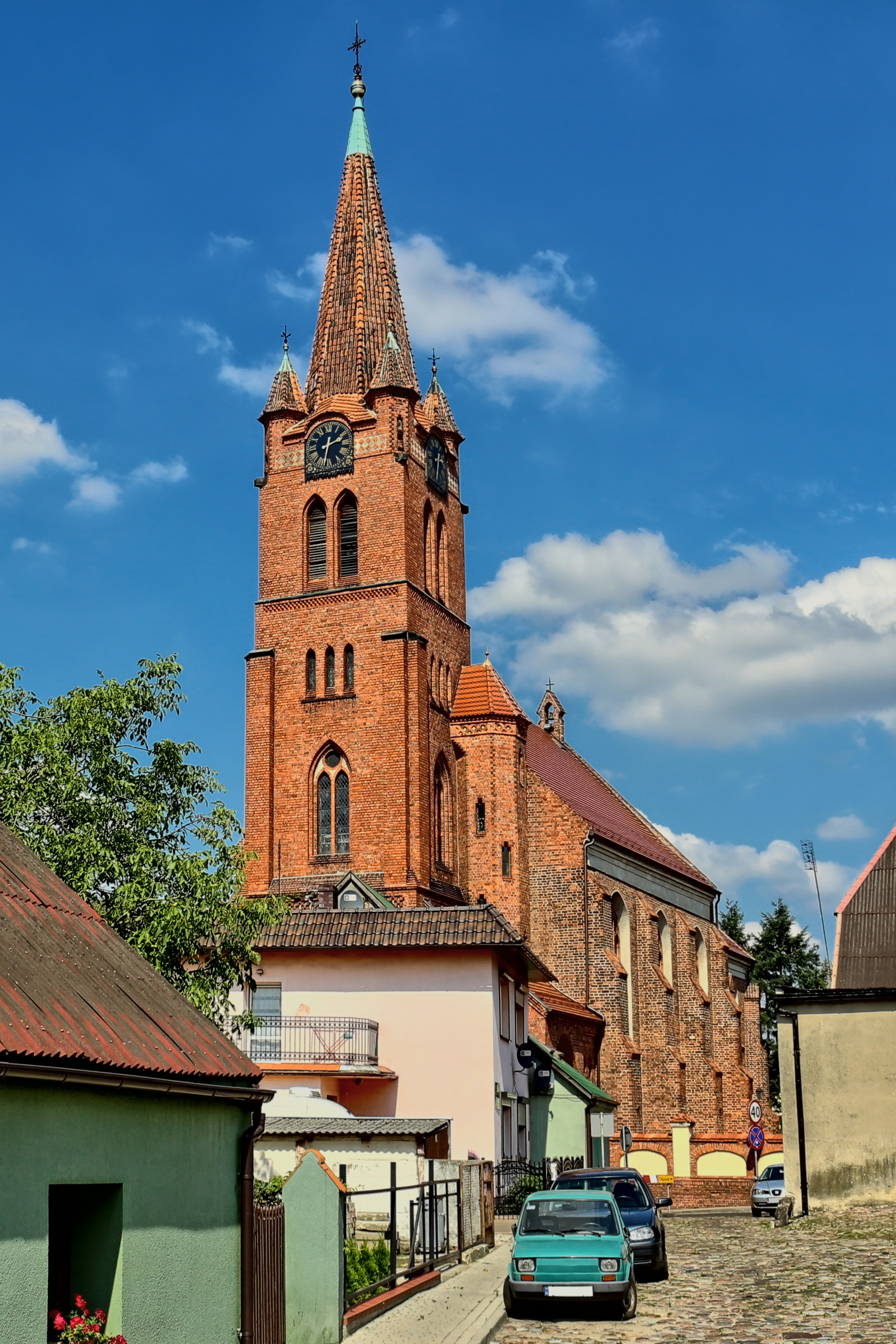 Church of the Assumption of Blessed Virgin Mary in Śmigiel